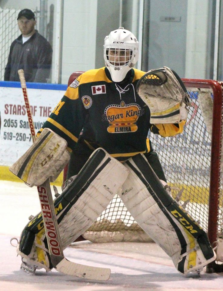 This photo was taken by Devan Mighton during the 2014-15 GOJHL season.